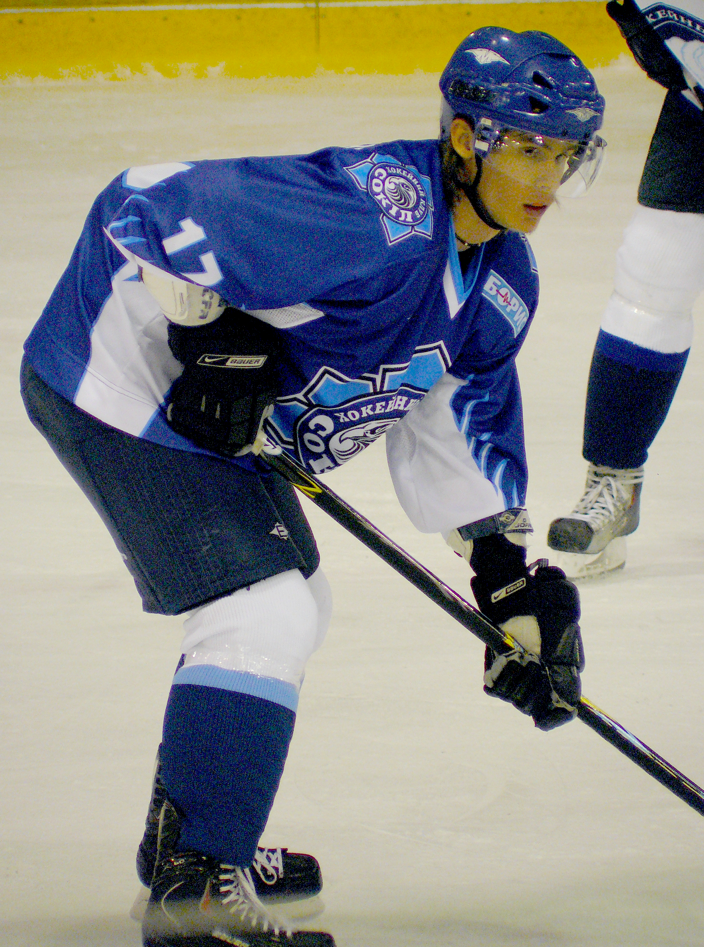 Forward Nikita Butsenko #17 of the Sokil Kyiv during the Belarus Extraliga game against the HK Vitebsk on September 30, 2010 at the Terminal Arena in Brovary, Ukraine. Sokil Kyiv won the game 6:3.